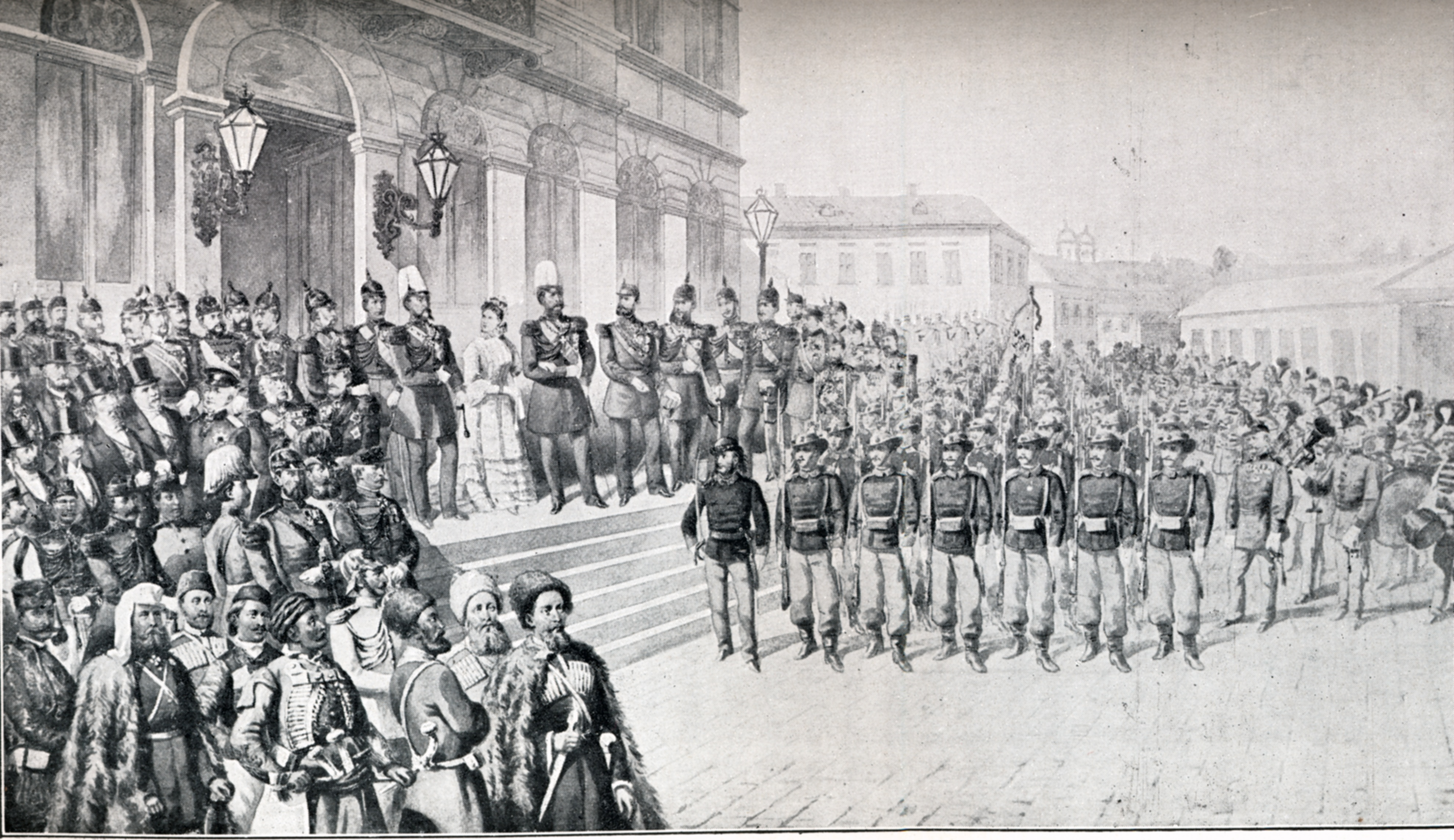 Welcoming of the Tsar of Russia, Alexander II, in Bucharest, before going toward the Danube